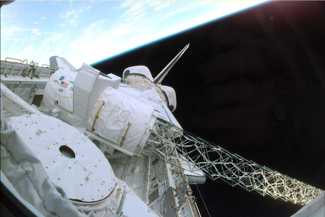 Part of the Shuttle Radar Topography Mission hardware is photographed through Endeavour's aft flight deck windows about half way through the scheduled 11-day SRTM flight. The mast, only partially visible at lower right, is actually 200 feet (60 meters) in length.